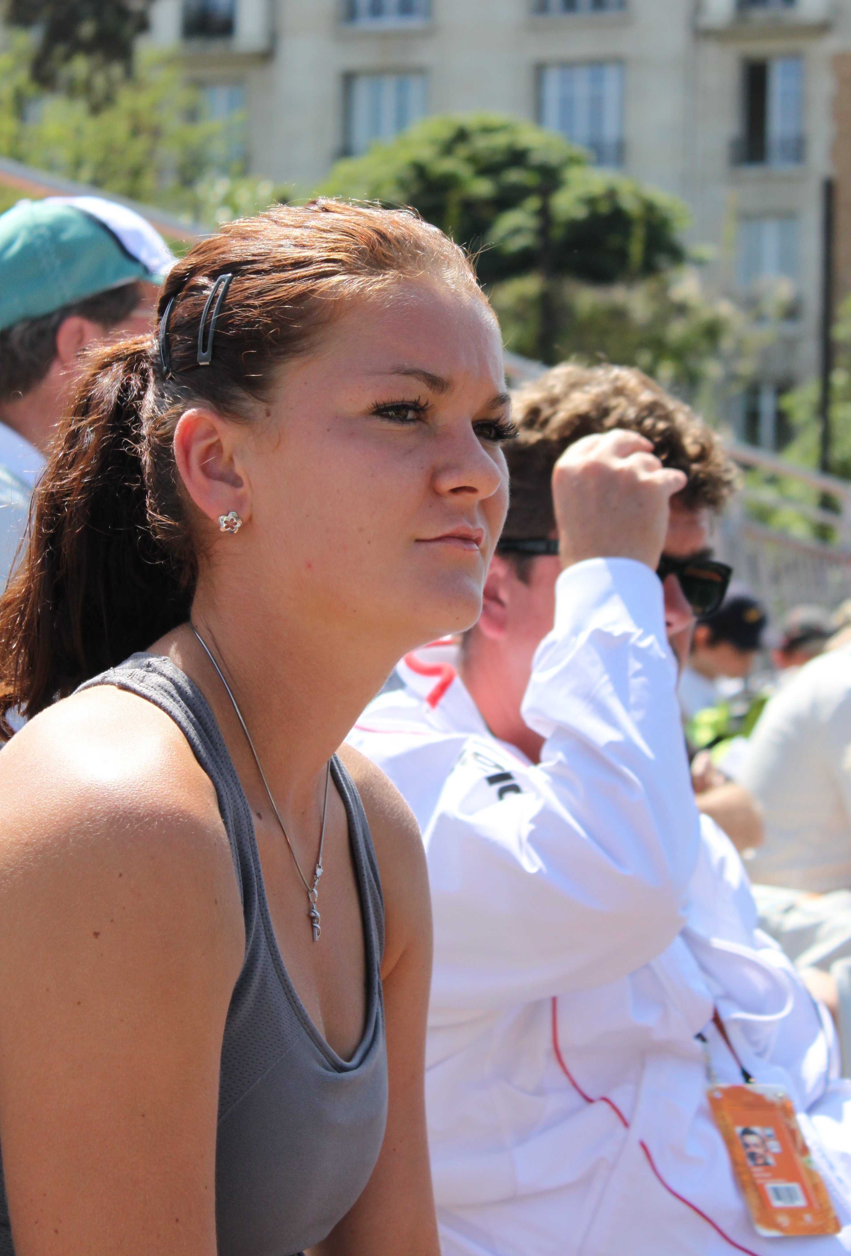 Agnieszka Radwańska at the French Open in 2011, watching her sister Urszula who was playing a qualifying match.